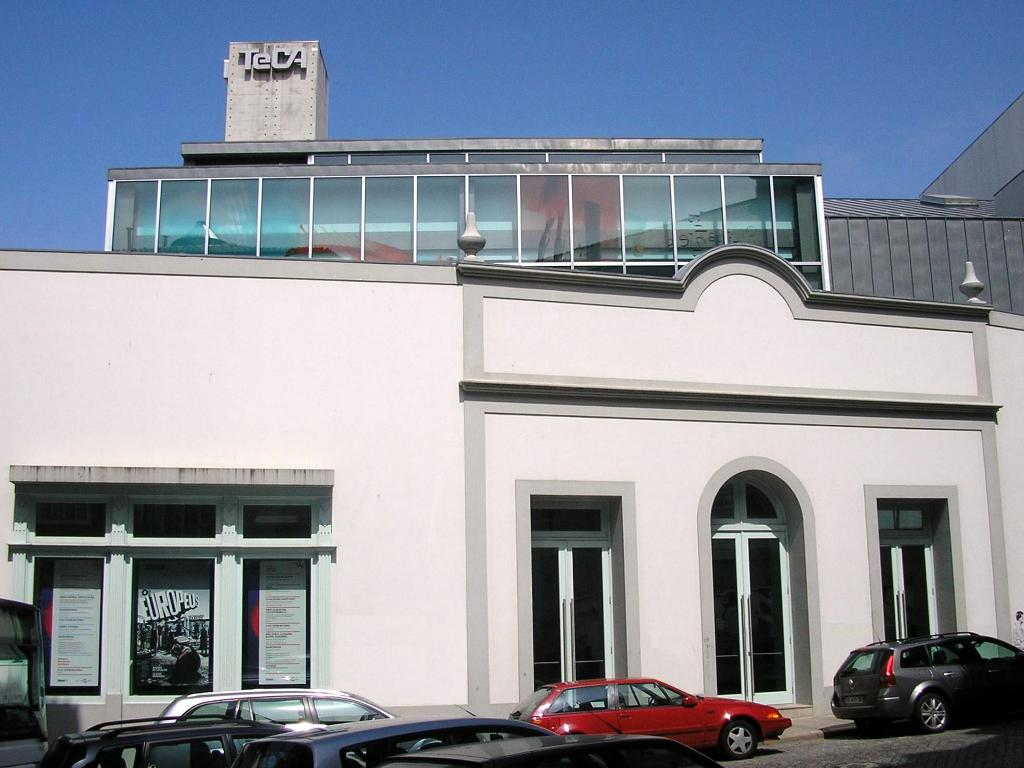 Carlos Alberto Theatre in Porto city, Portugal.